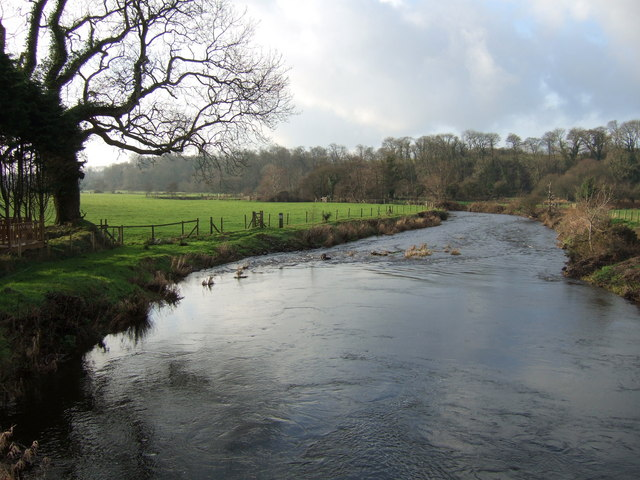 The Western Cleddau at St Catherine's Bridge This is the view from the bridge looking south down the western branch of the Cleddau. The river provides good fishing and is rich in wildlife generally.